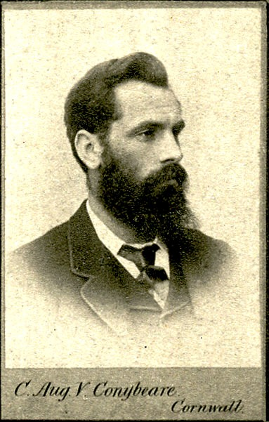 Photograph of Charles Augustus Vansittart Conybeare, MP for Camborne, Cornwall, known as the "Miners' Friend"